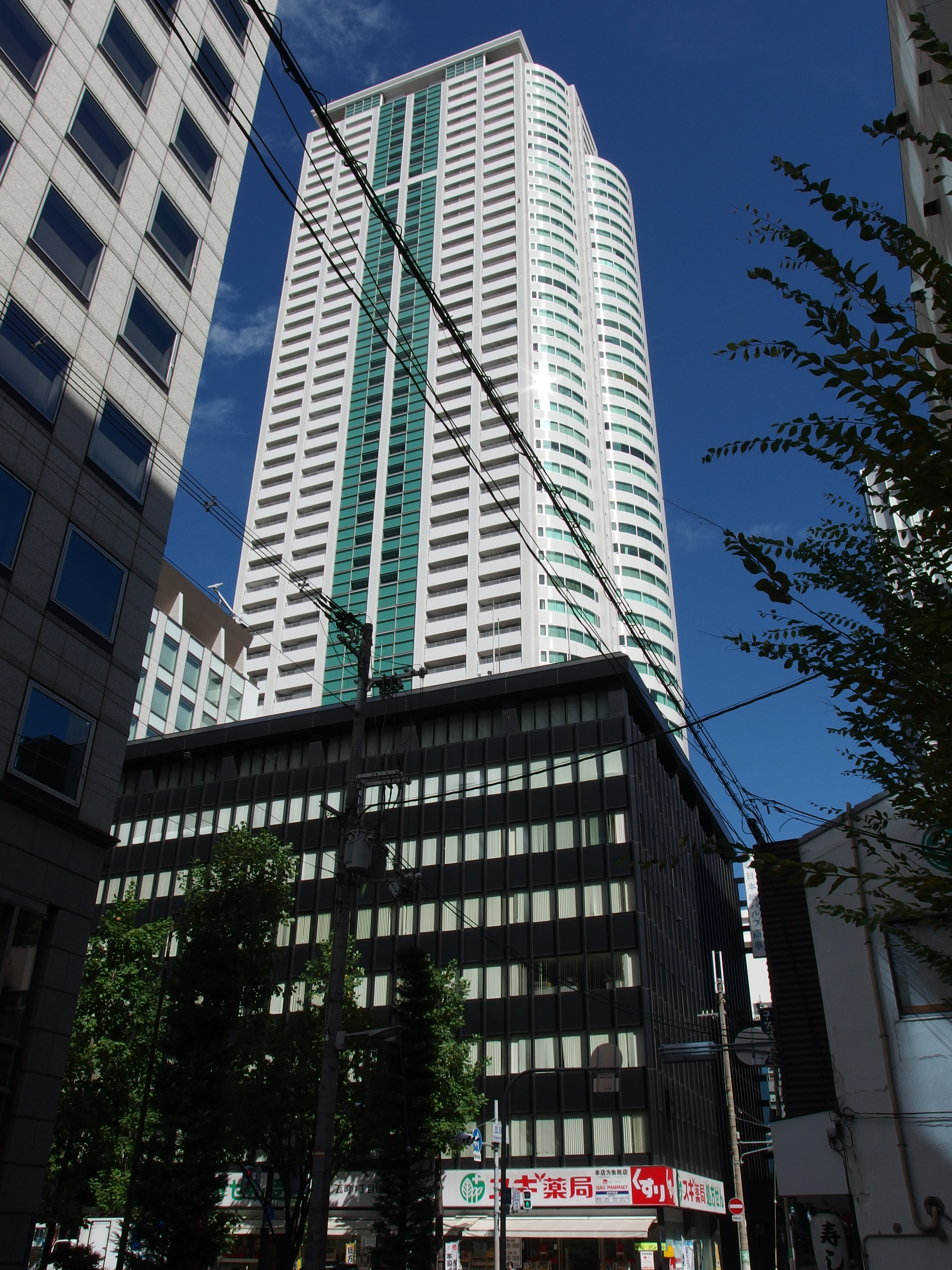 City-Tower Osaka in Osaka, Osaka Prefecture, Japan